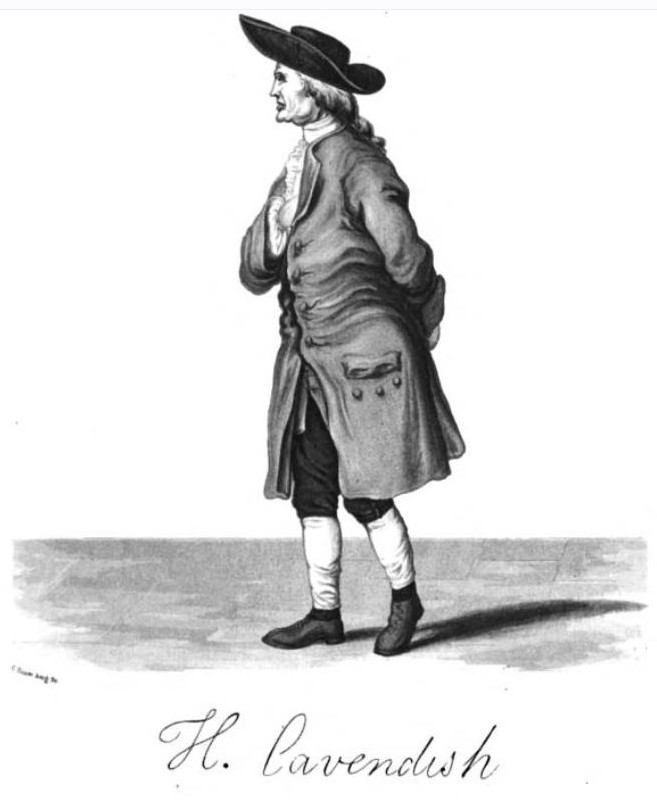 Picture and signature of the noted natural philosopher, Henry Cavendish